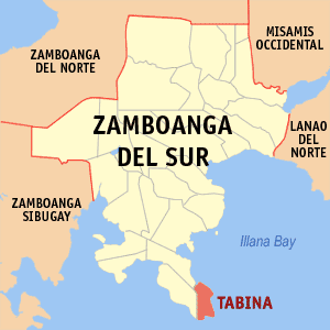 Map of Zamboanga del Sur showing the location of Tabina